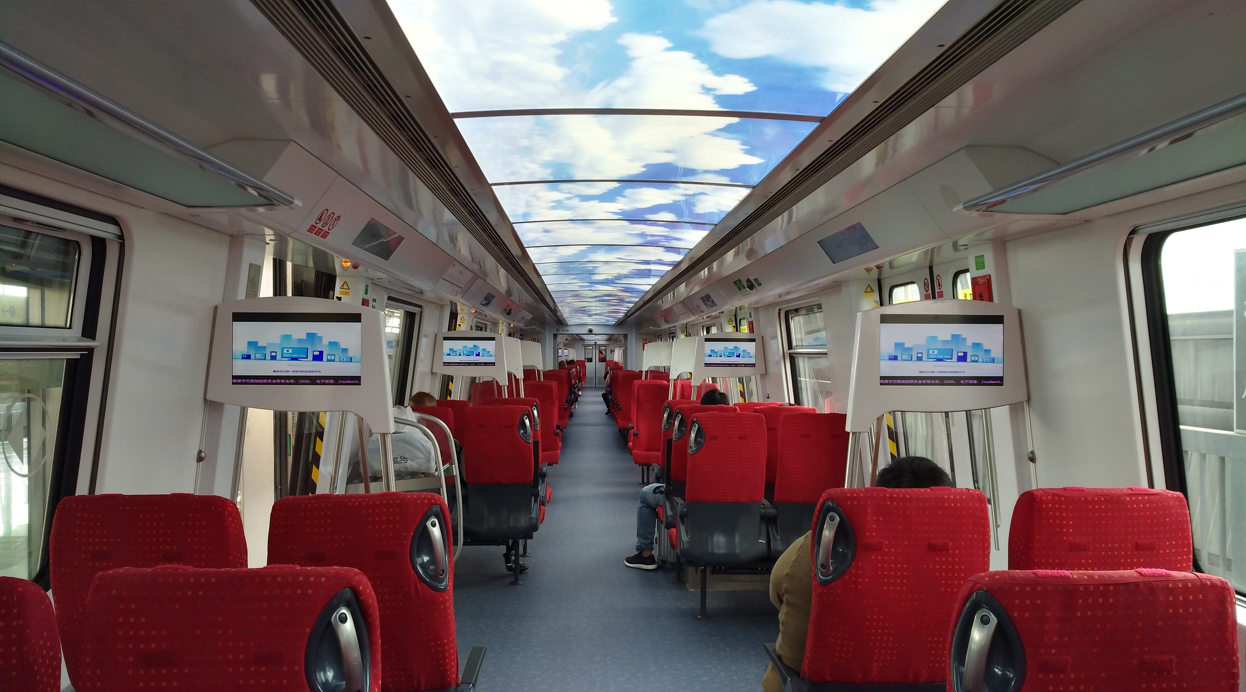 Shenzhen Metro Line 11 CRRC Zhuzhou A train Business Class